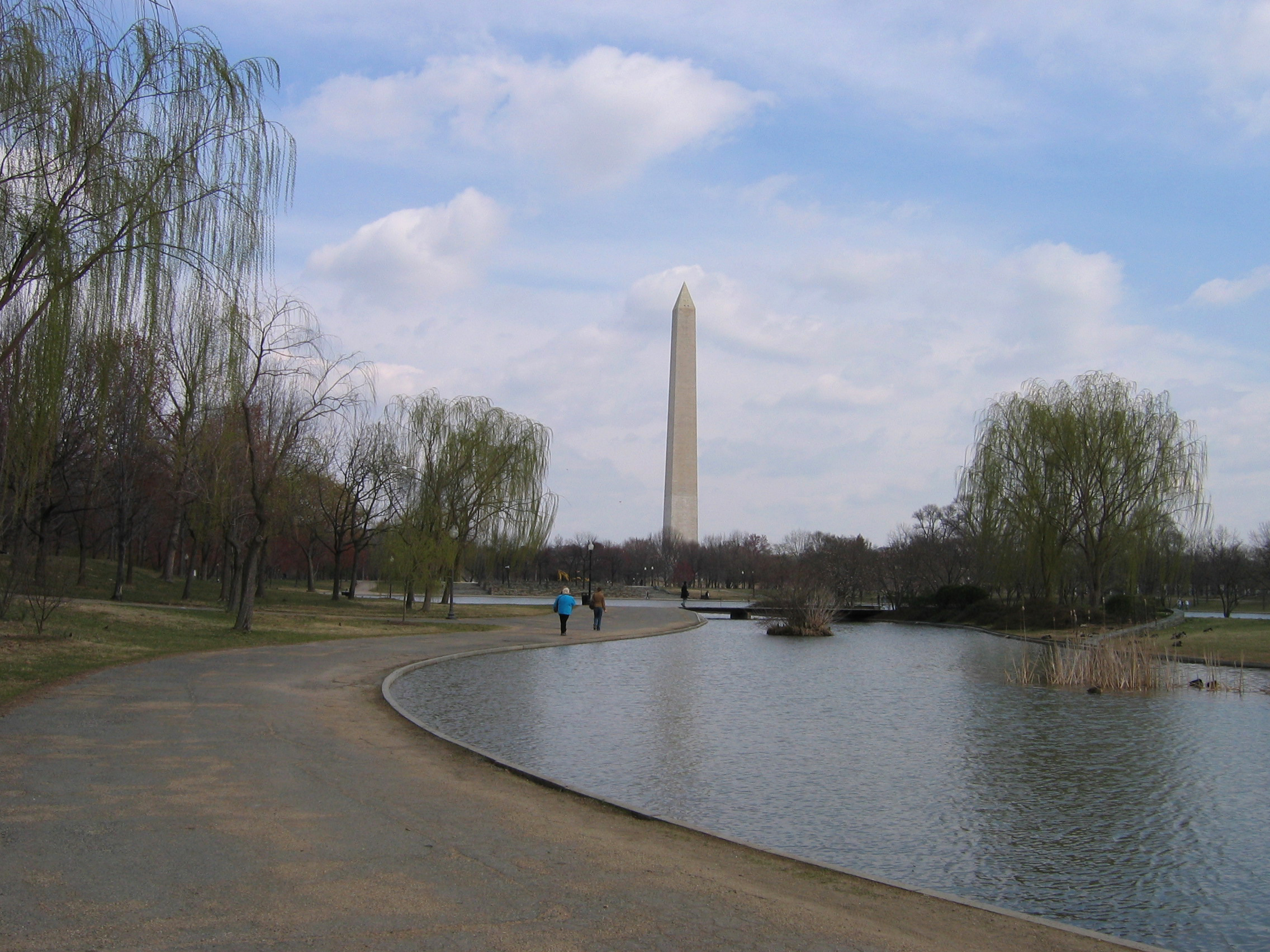 Constitution Gardens on the National Mall in Washington, D.C.